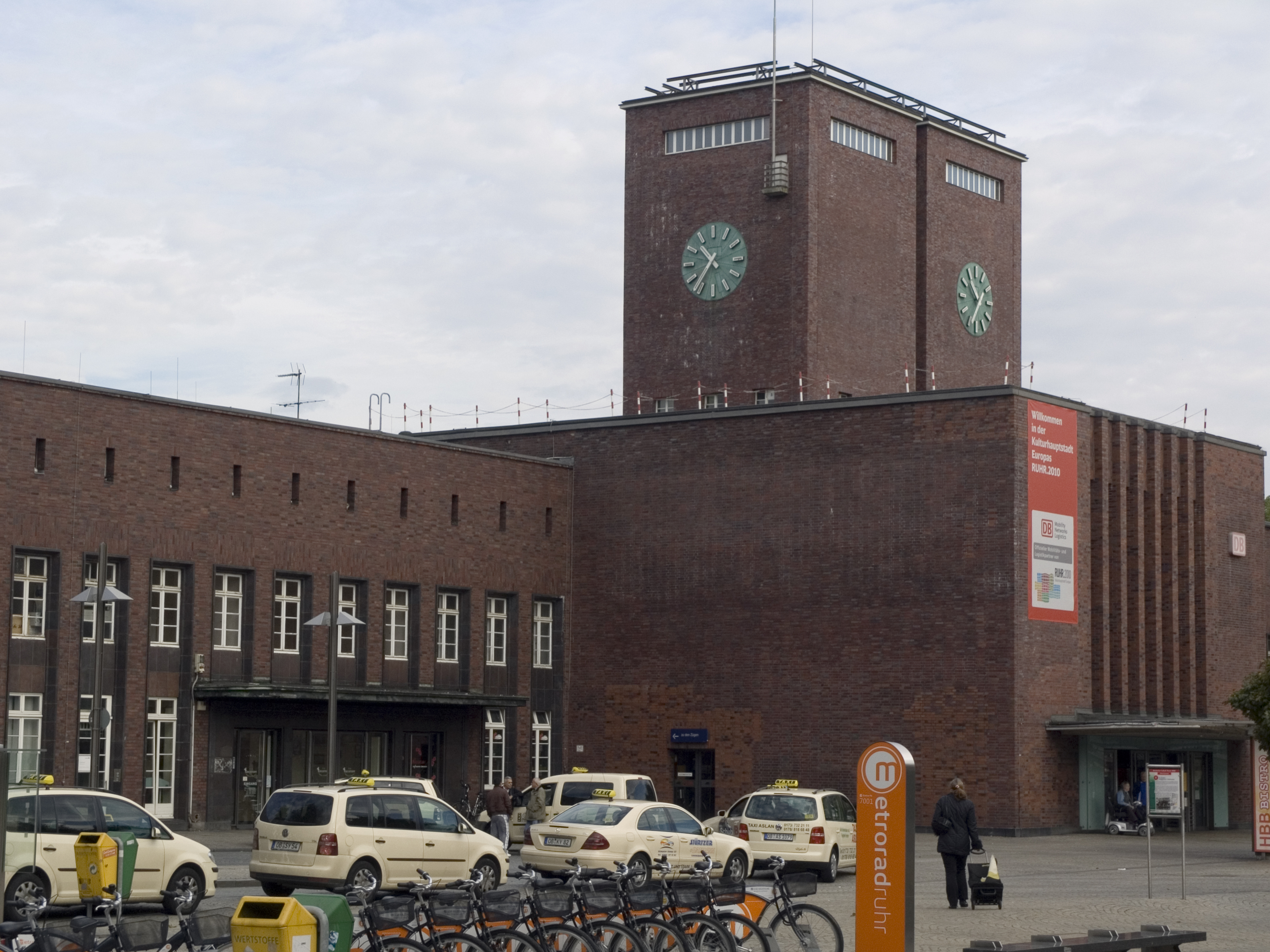 Oberhausen Central Station